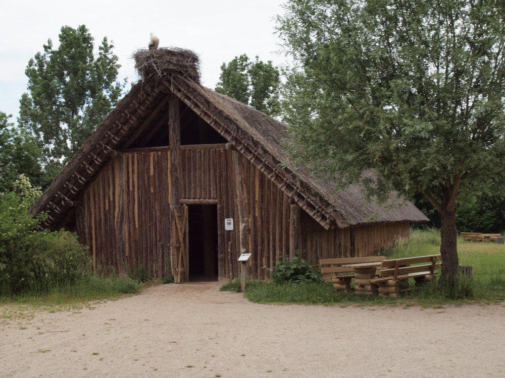 Reconstruction of a Neolithic Longouse in zoo “Tiergarten Straubing” in Straubing, Germany